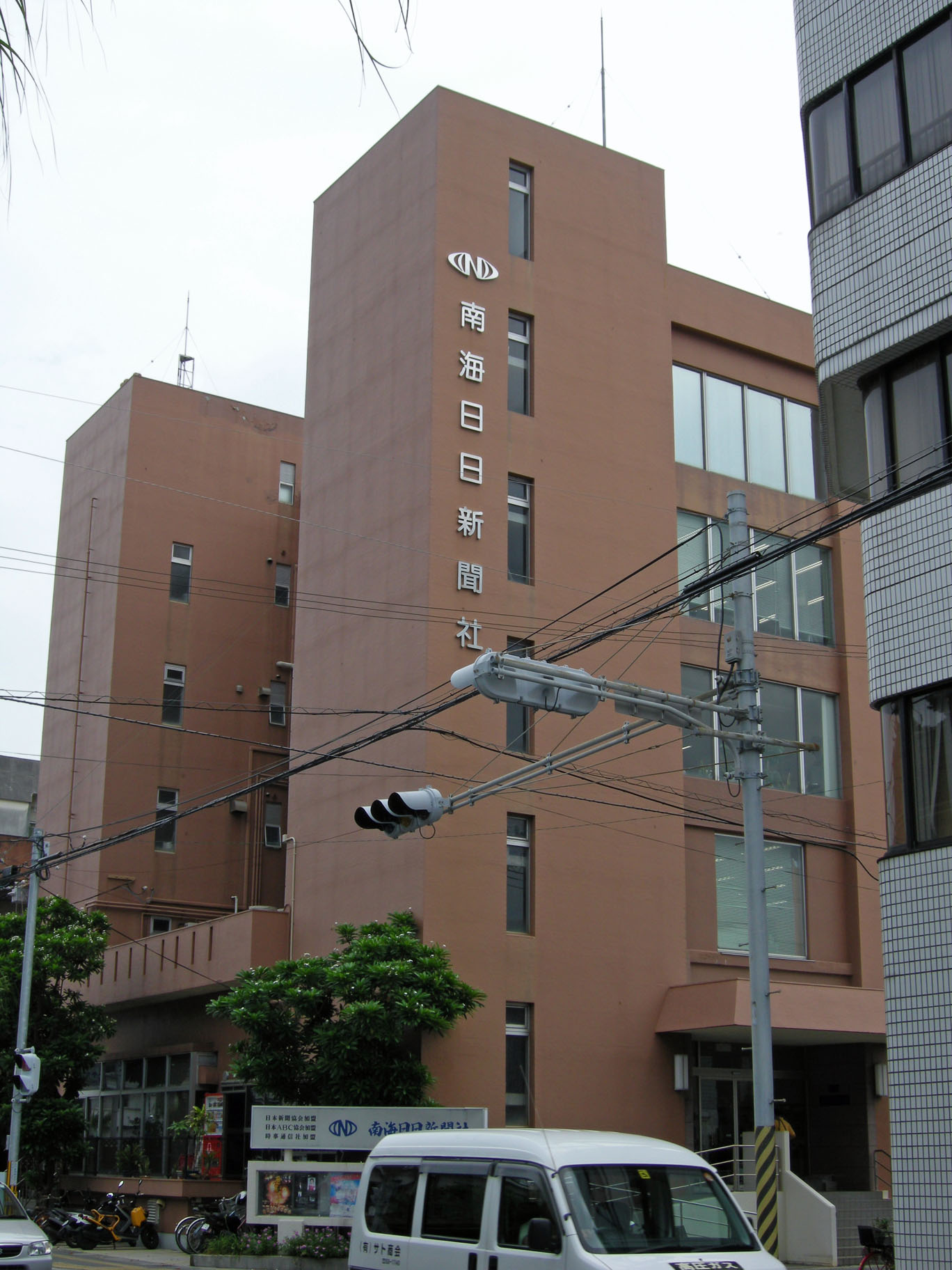 Nankai Nichinichi Shinbun, Amami, Kagoshima, Japan